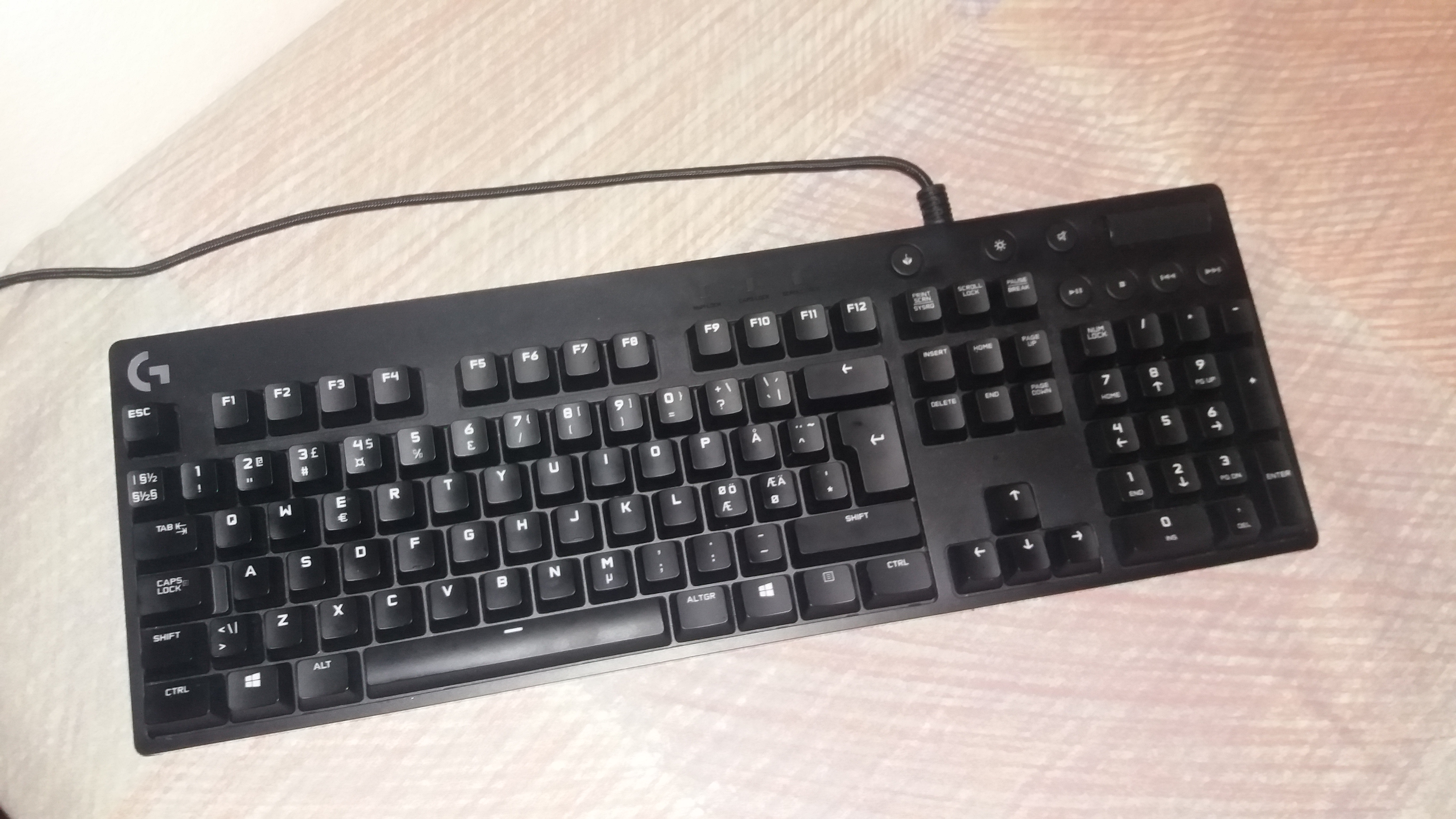 Logitech's mechanical Logitech G610 Orion Red gaming keyboard with Cherry MX Red switches.